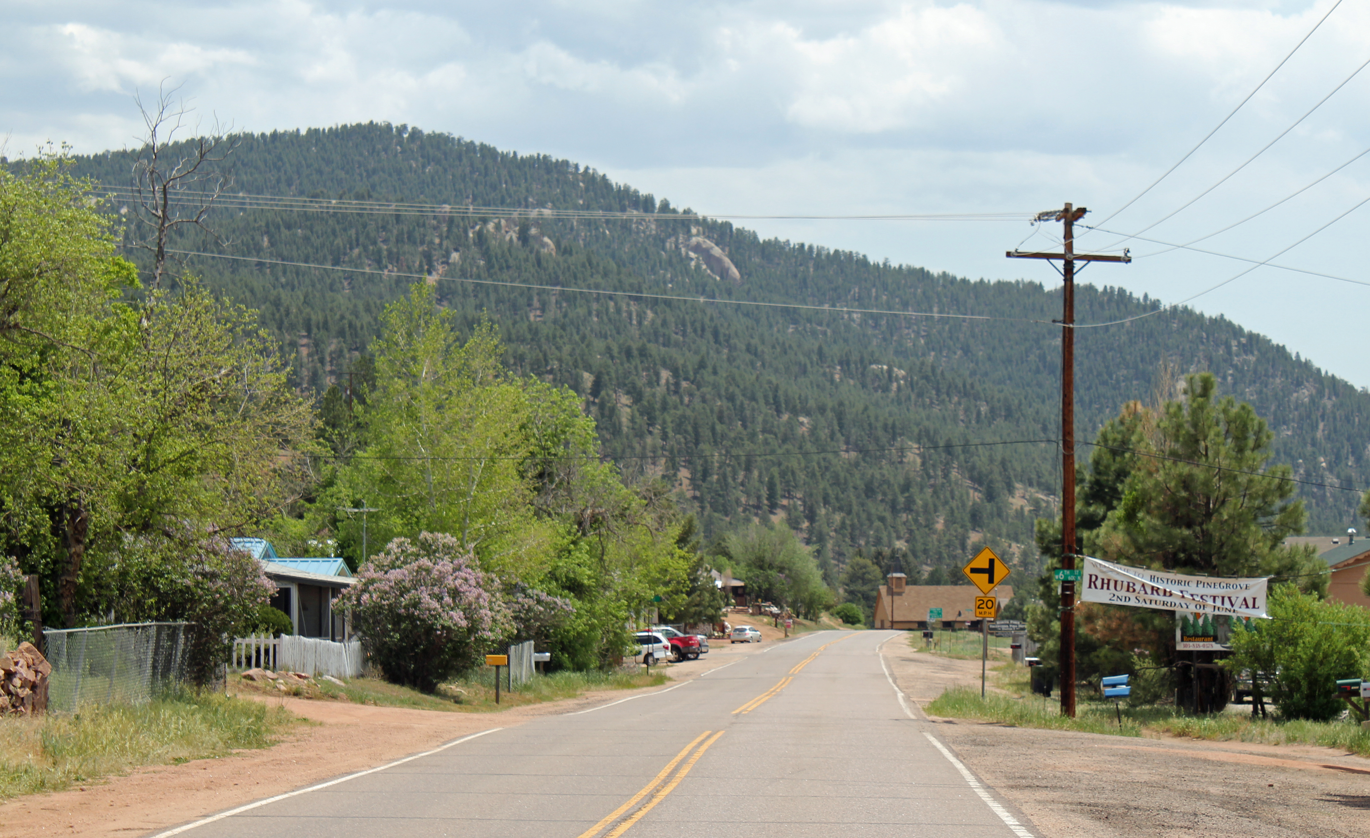 The town of Pine, Colorado. The town is also called Pine Grove. The view shows Jefferson County Road 126, which passes through the town.